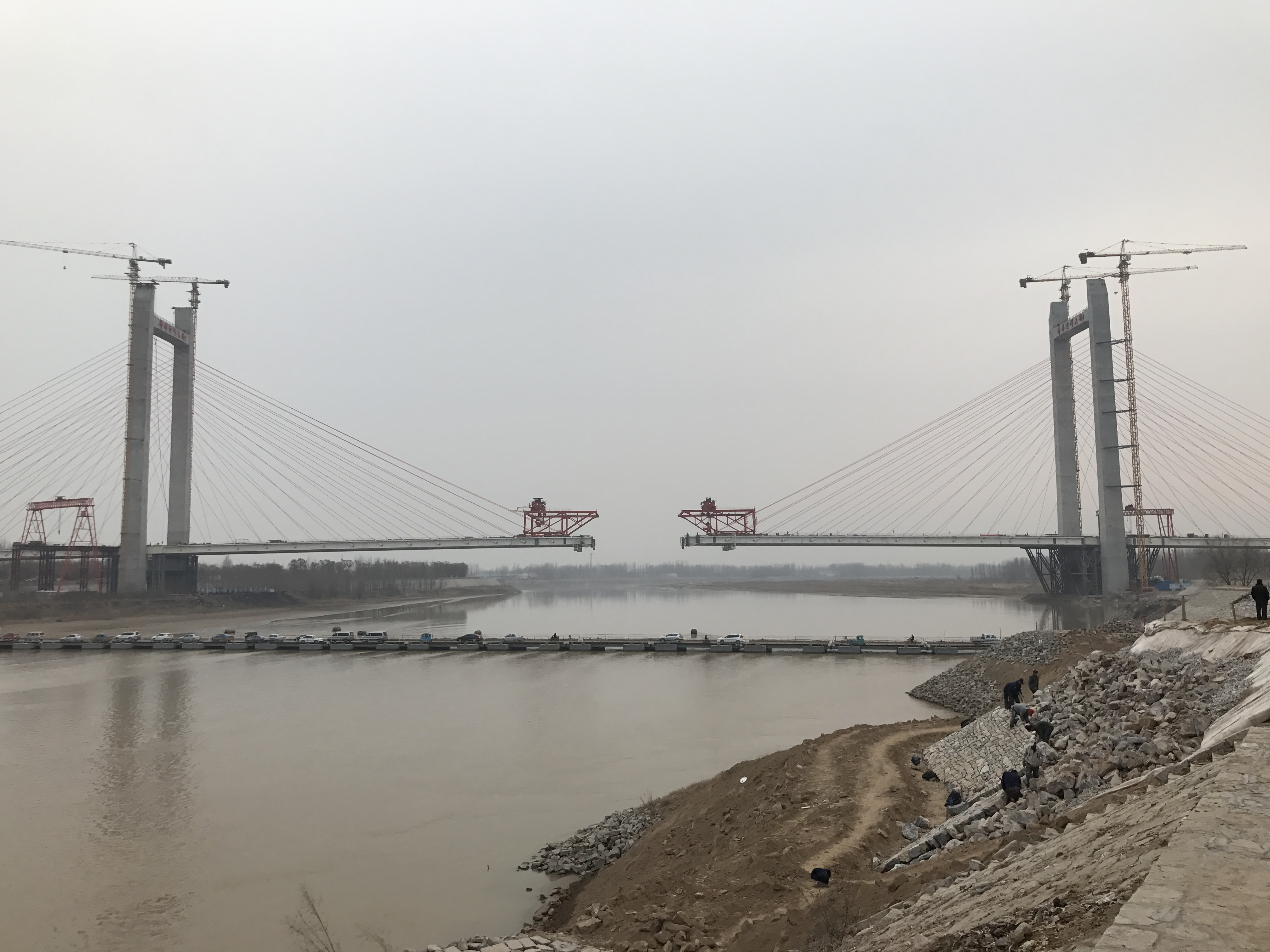 Qihe Yellow River Bridge - Under Construction